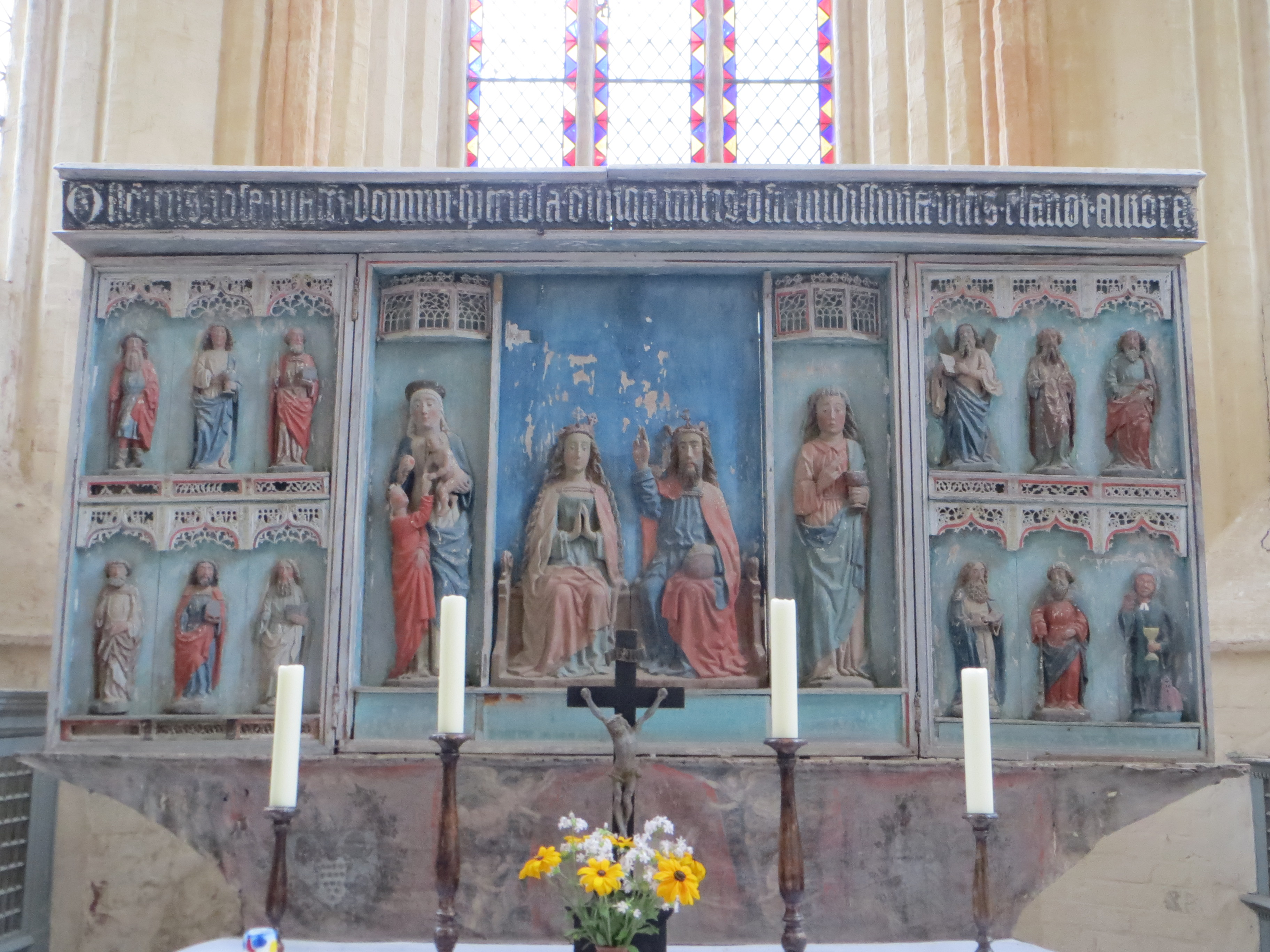 Kirche Zurow